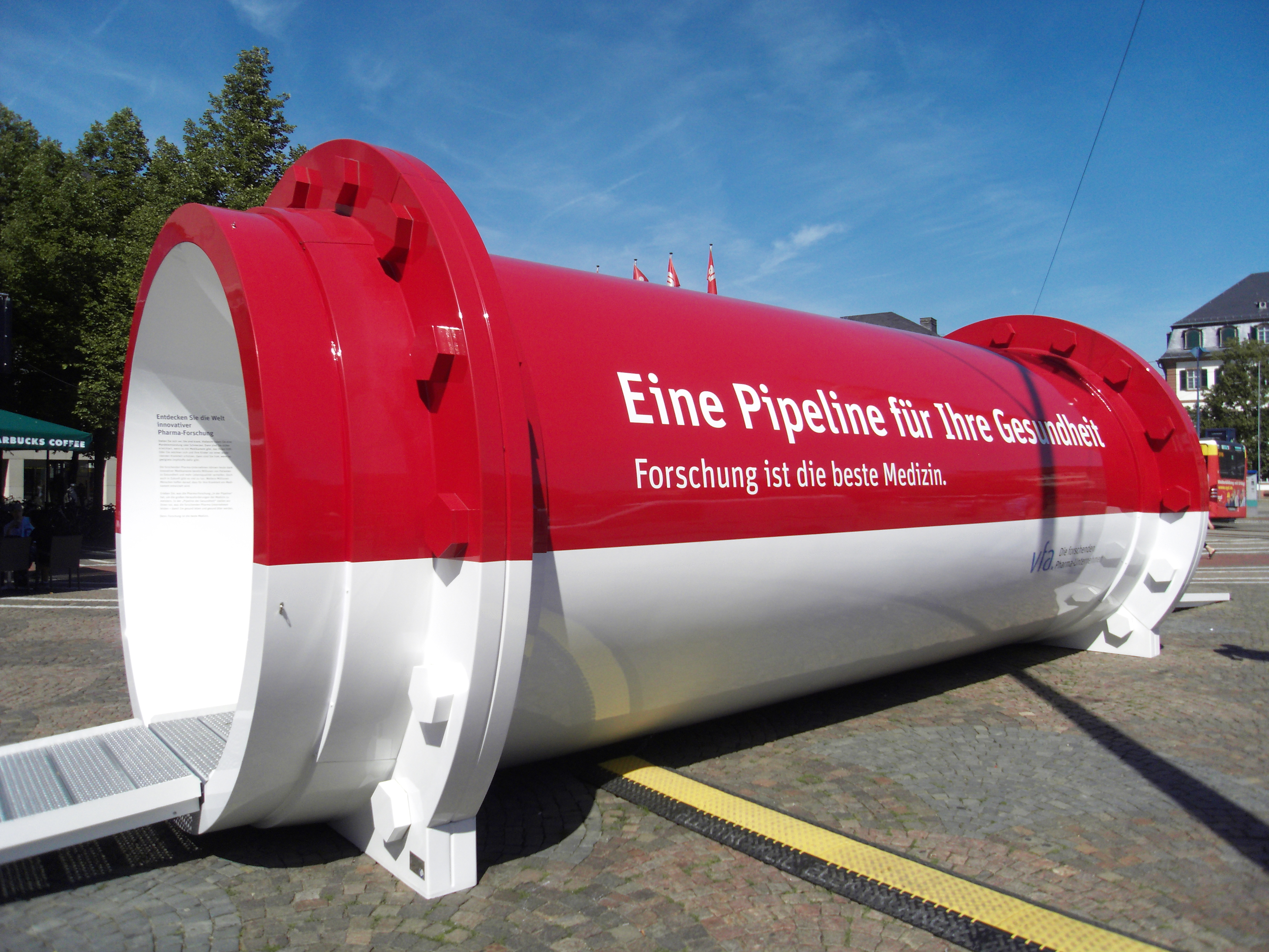 outdoor exhibition pavilion Luisenplatz Darmstadt